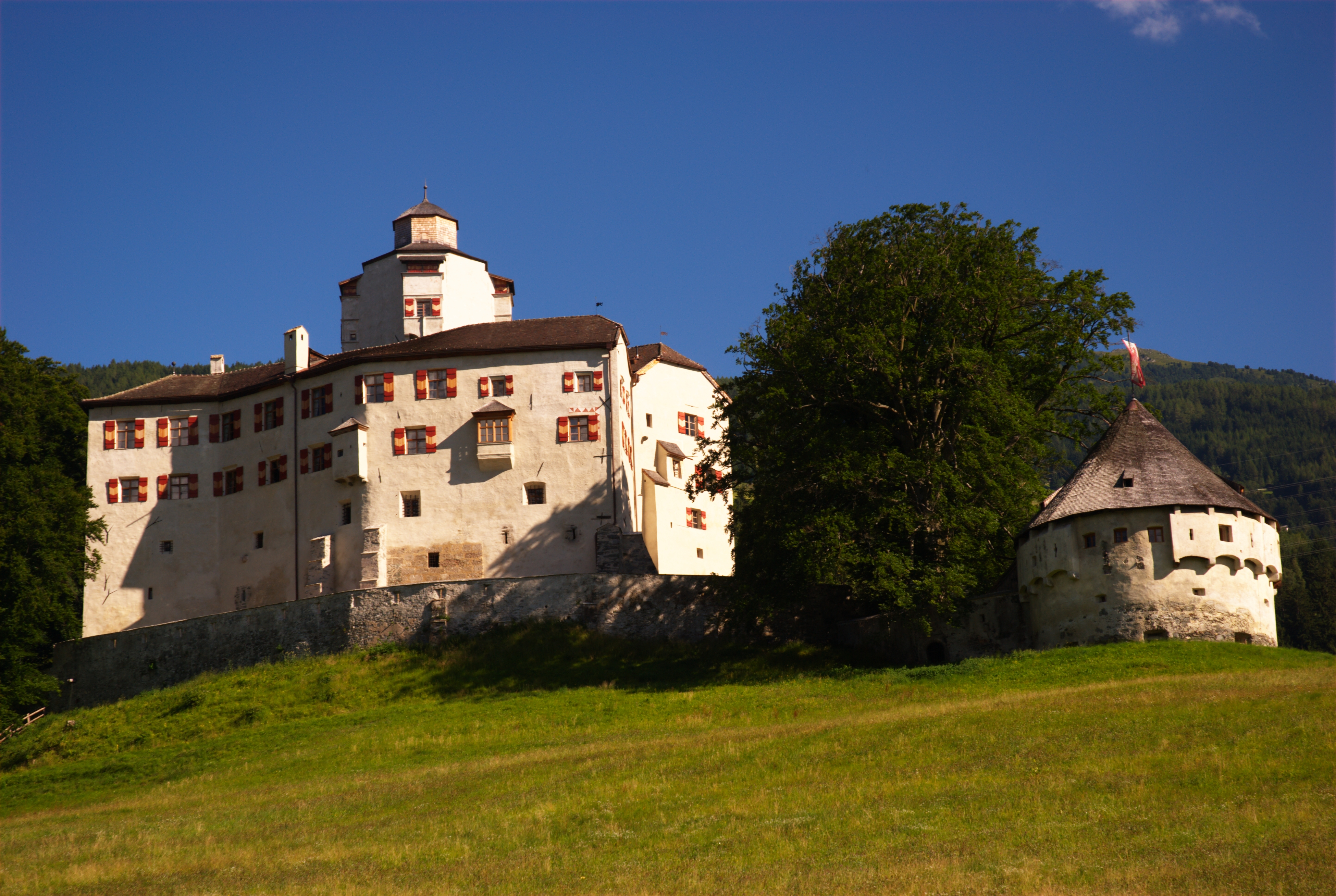 Friedberg castle near Volders